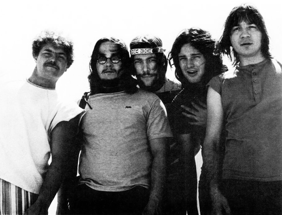 Trade ad for The Guess Who's single "Hand Me Down World".To better adapt it to his respective Wikipedia article, the ad was cropped and cleaned in a graphics editing program. The original can be viewed at the source below.